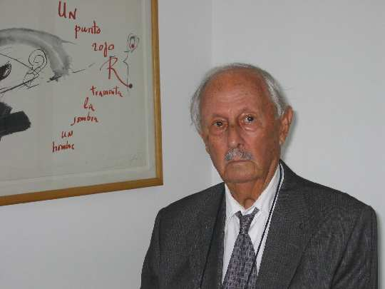 Thumbnail of CarlosyPoema2, shows Carlos Franqui along with a painting that contains one of his poems